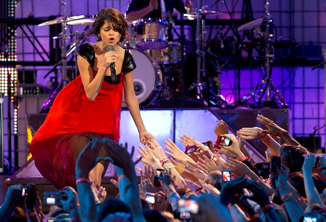 Selena Gomez performing Who Says at 2011 Much Music Video Awards